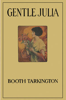 Front cover of the dust jacket for the 1922 novel Gentle Julia by Booth Tarkington